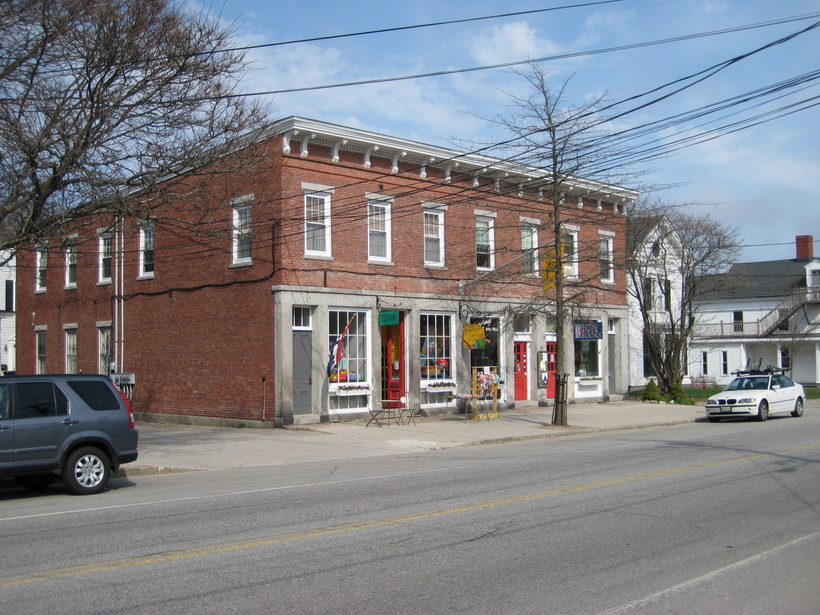 Upper Village, Main Street, Yarmouth, Maine